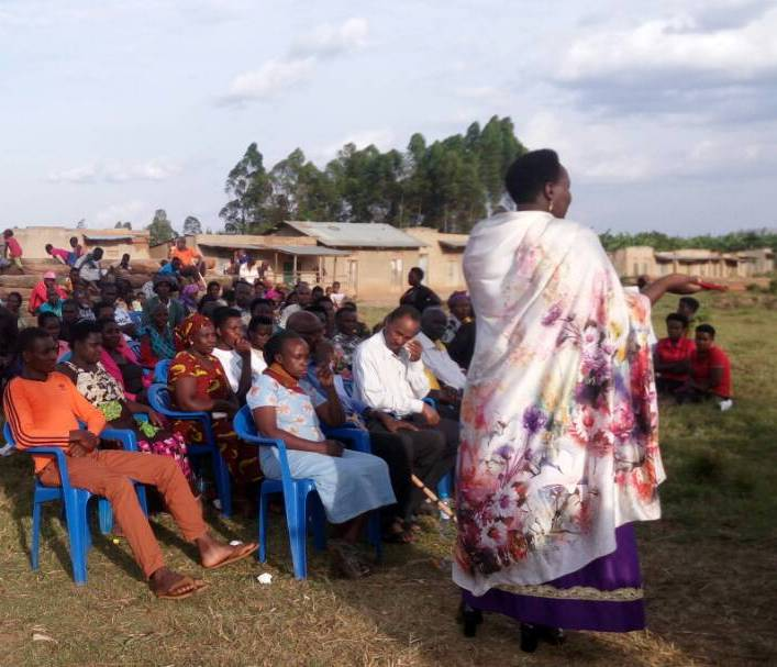 Jacklet at a Community Consultative Meeting in Sheema District